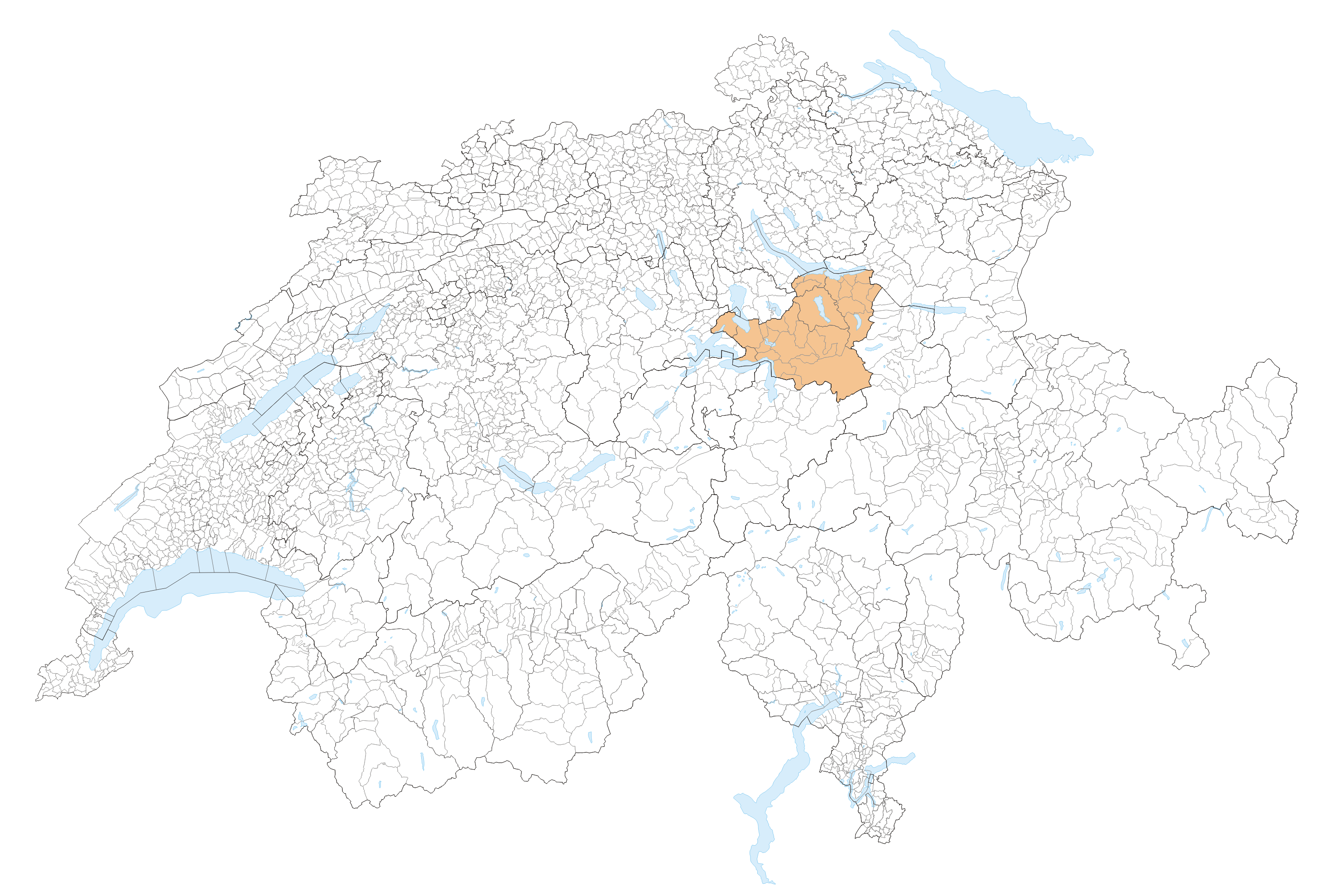 Kanton Schwyz